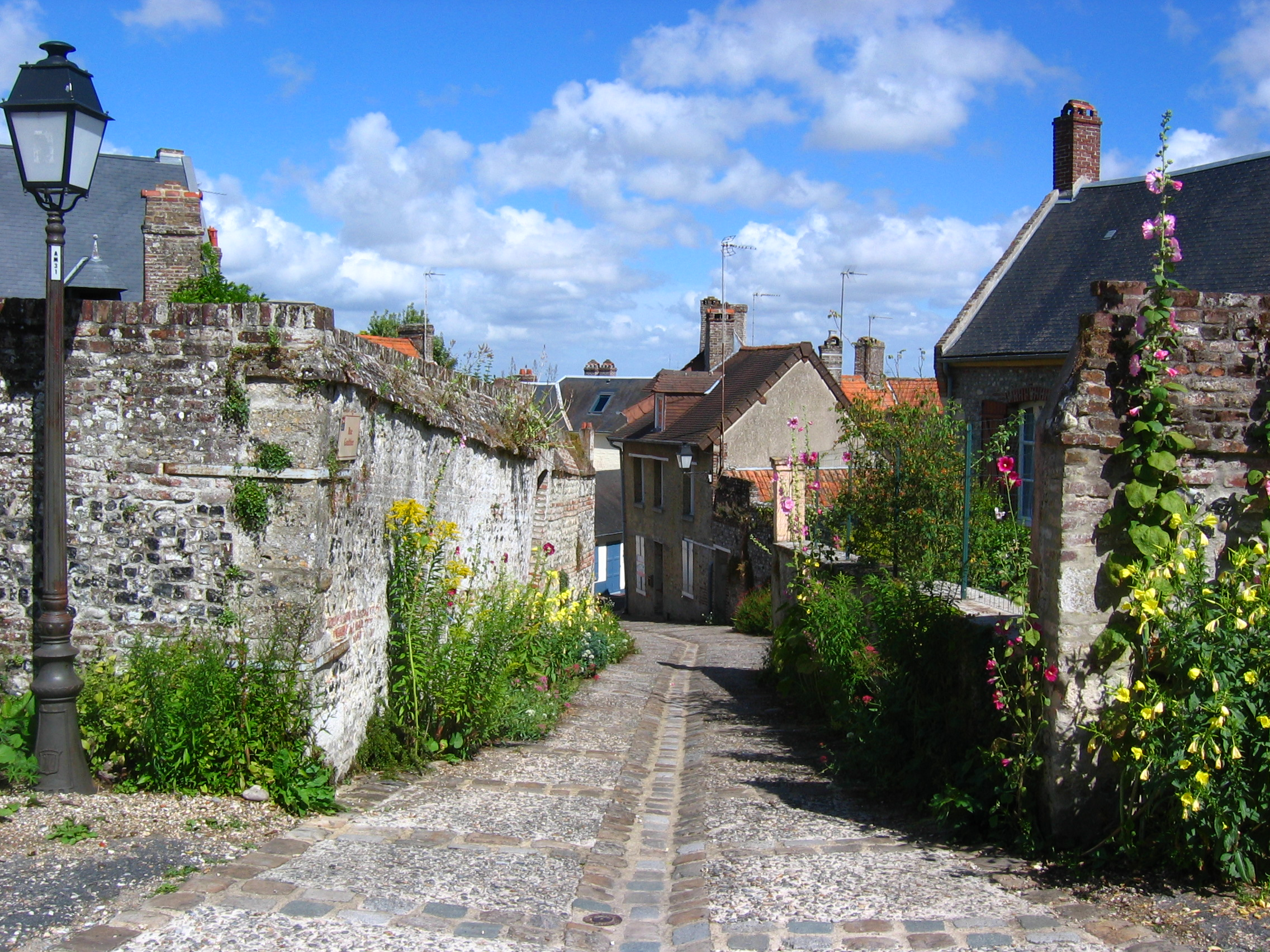 Saint-Valery-sur-Somme (80): Gaultier Street